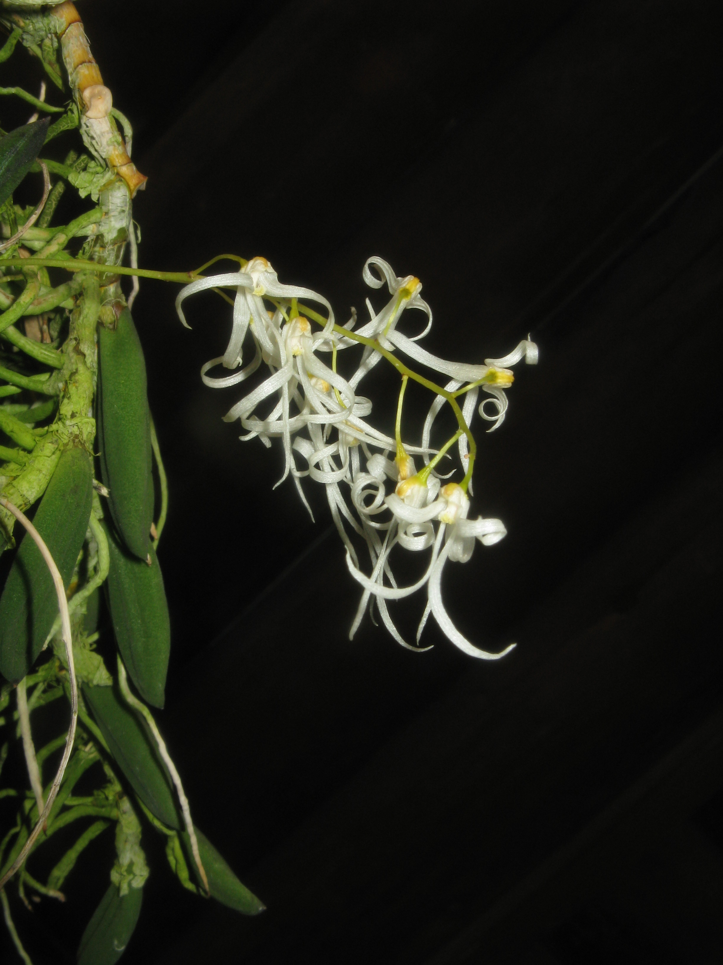 Scientific name Dendrobium linguiforme var. nugentae Place:Osaka Prefectural Flower Garden,Osaka,Japan